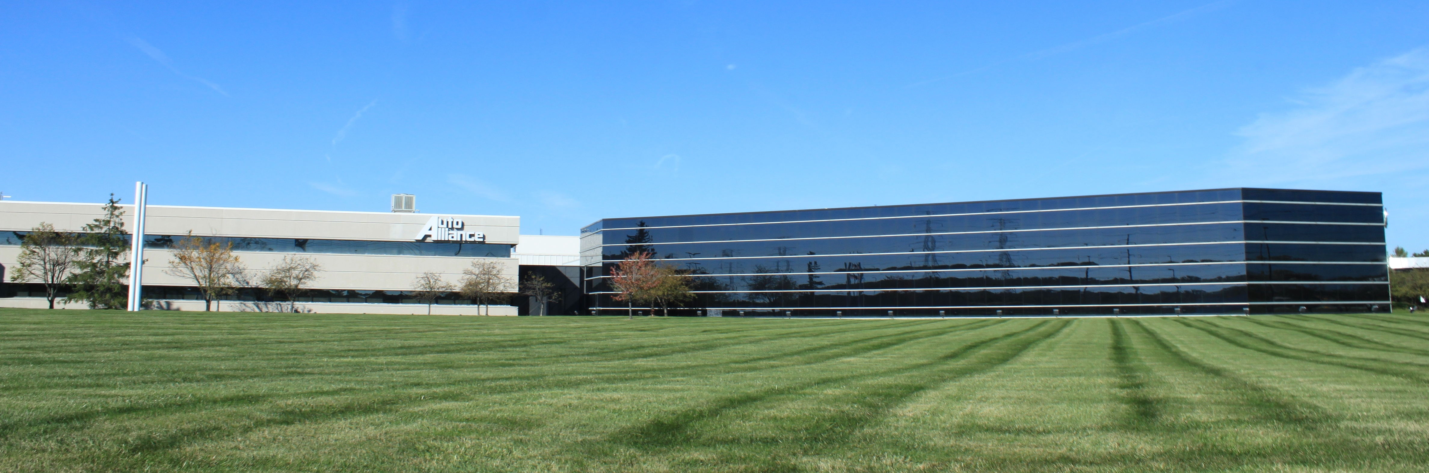 AutoAlliance International plant, 1 International Drive, Flat Rock, Wayne County, Michigan. Ford + Mazda.